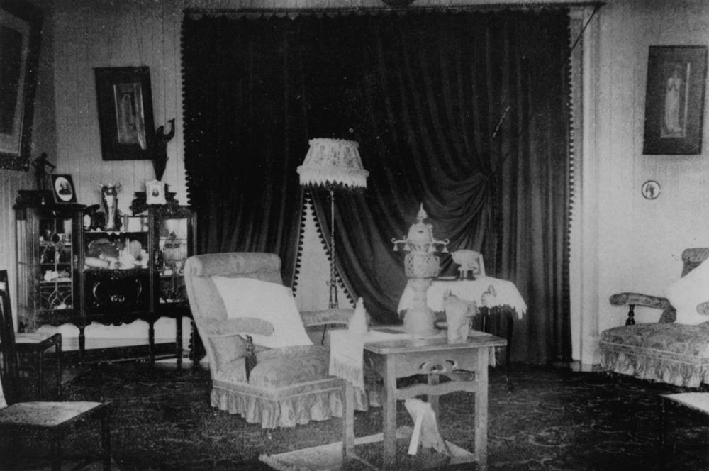 Drawing Room at Barambah Estate Homestead, 1914.